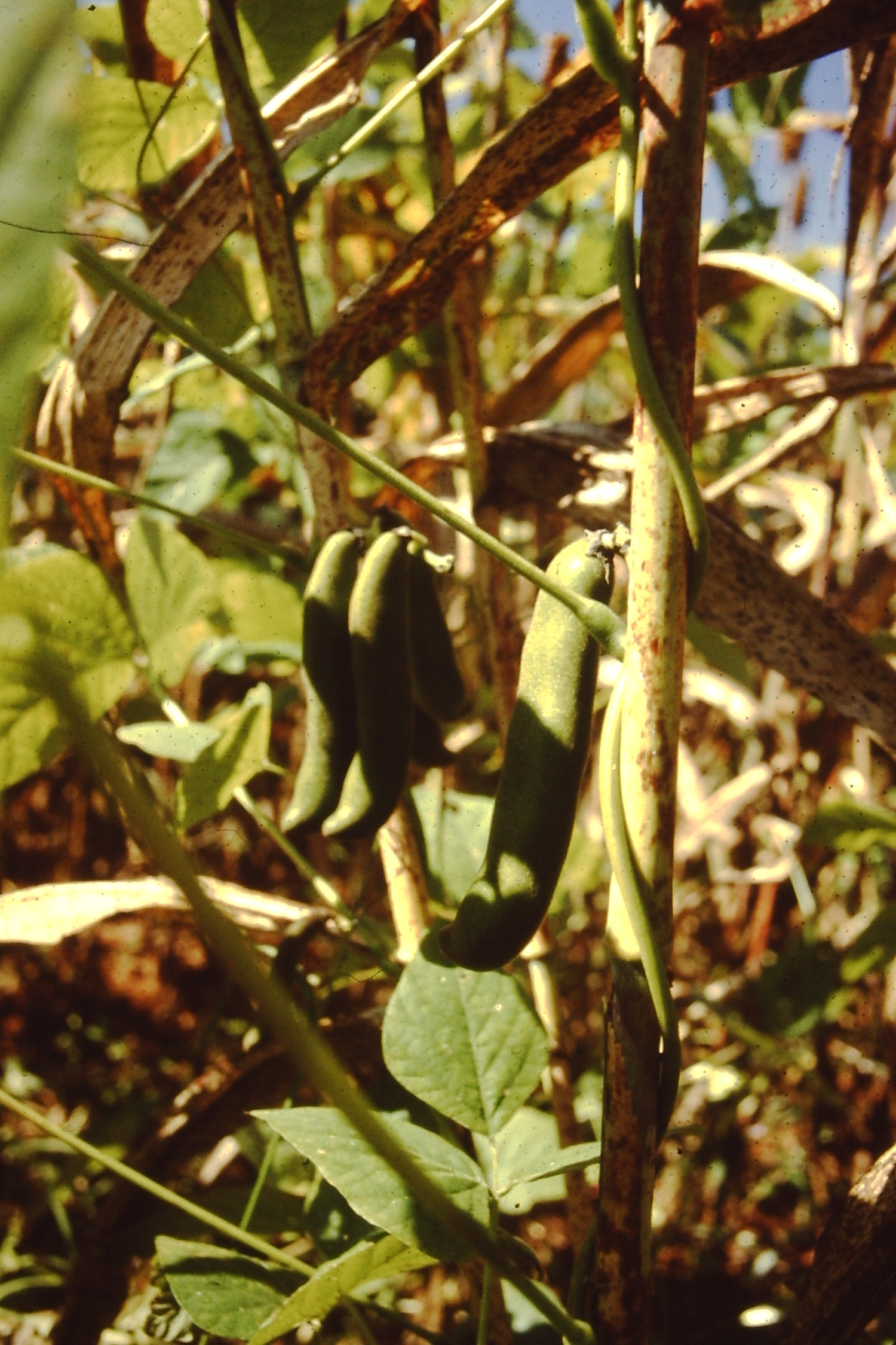 Intercropping of sorghum and Canavalia ensiformis used in family agriculture in the Niassa Plateau (Northern Mozambique)